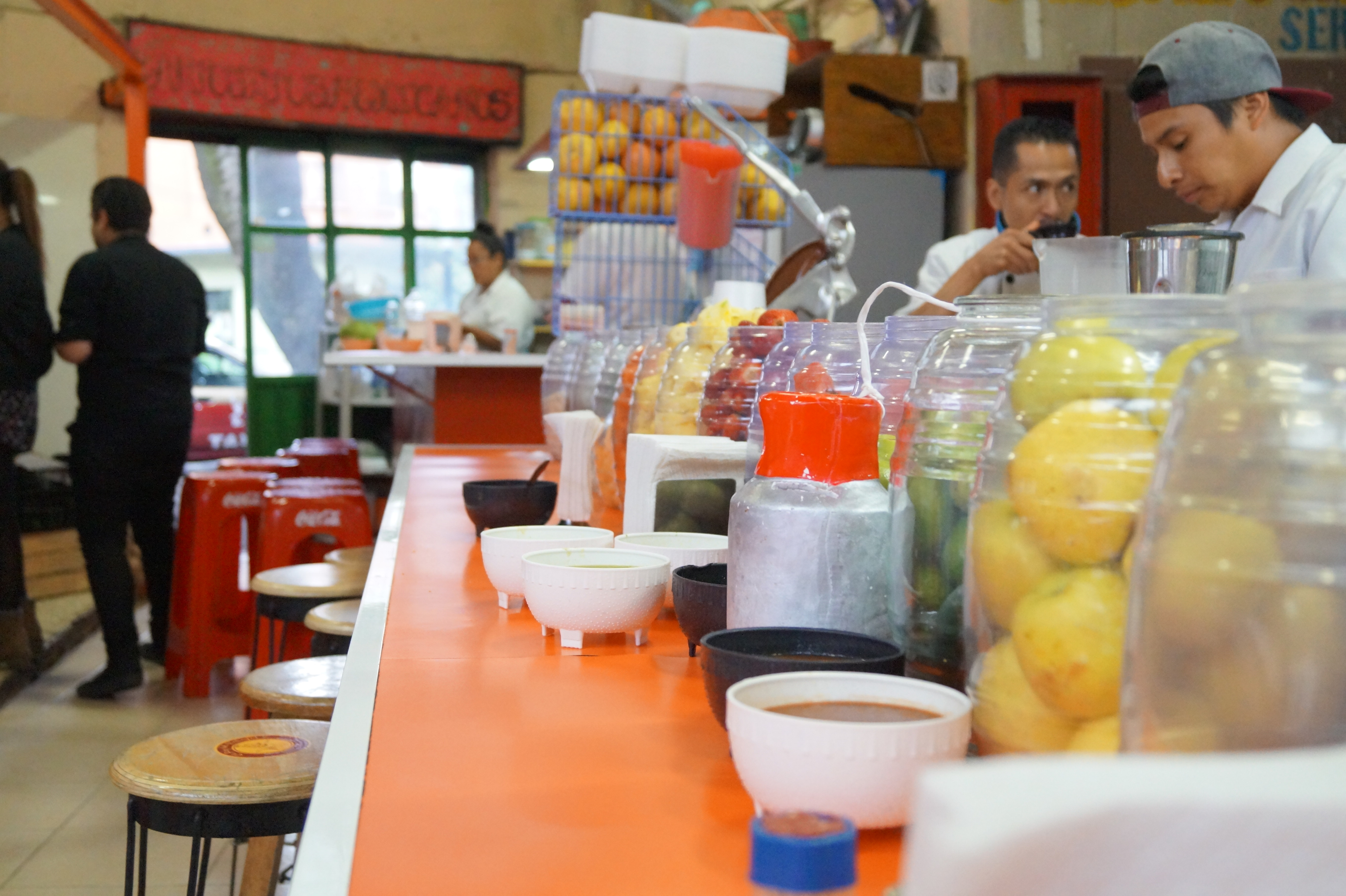 Various fresh, ripe and seasonal fruits, carefully accommodated to customer choice.